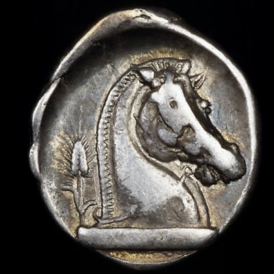 Silver Didrachm, Rome(Southern Italian Mint) 275-270 BC. (6.95g) Horse's head ROMANO (worn off) Reverse Crawford 13/1